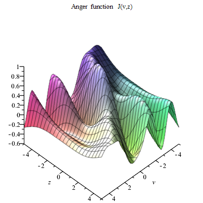 Anger function 3D plot